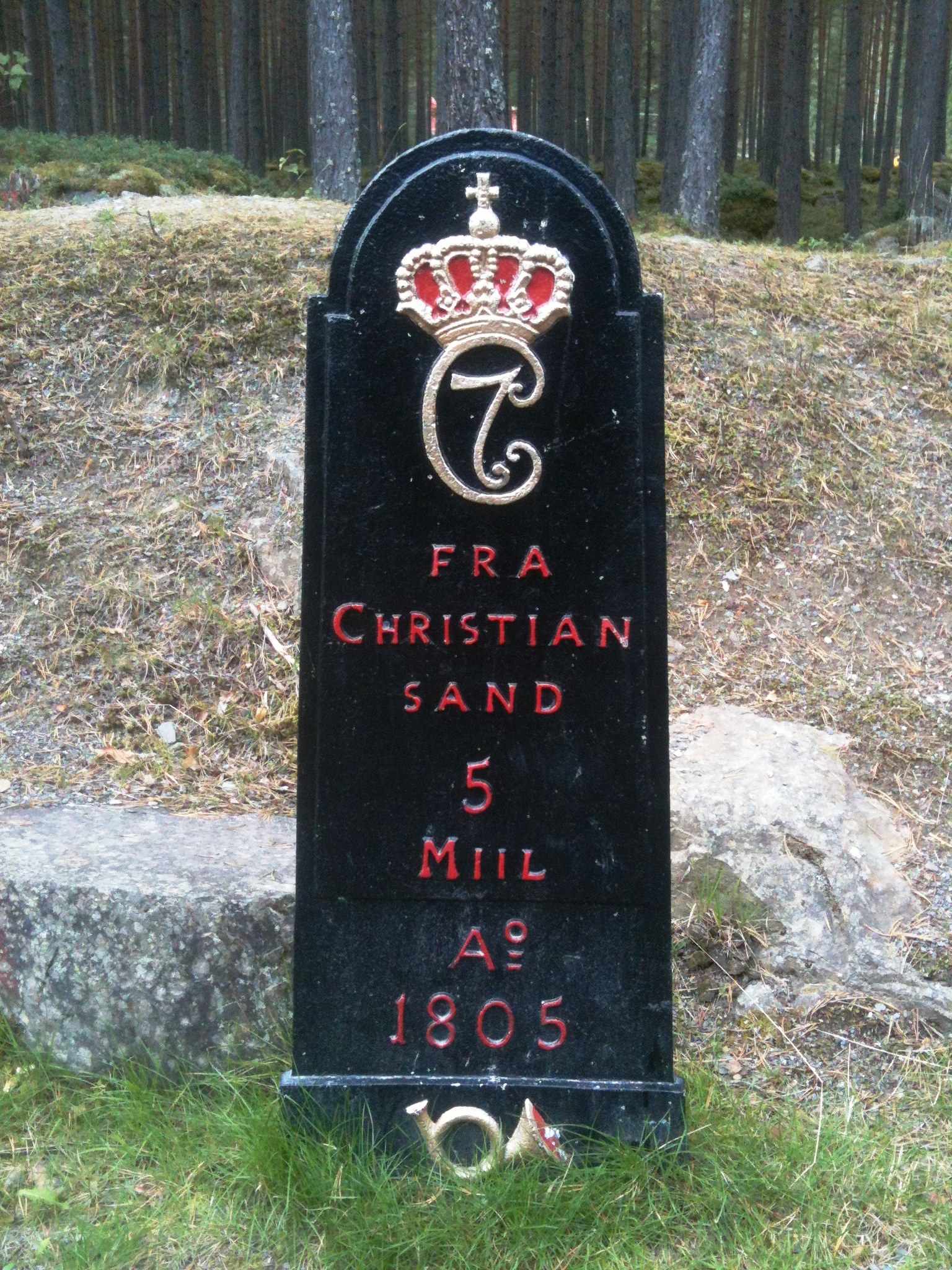 Exhibit at the Norwegian Road Museum (Norsk Veimuseum), by Hunderfossen in Lillehammer, Norway.